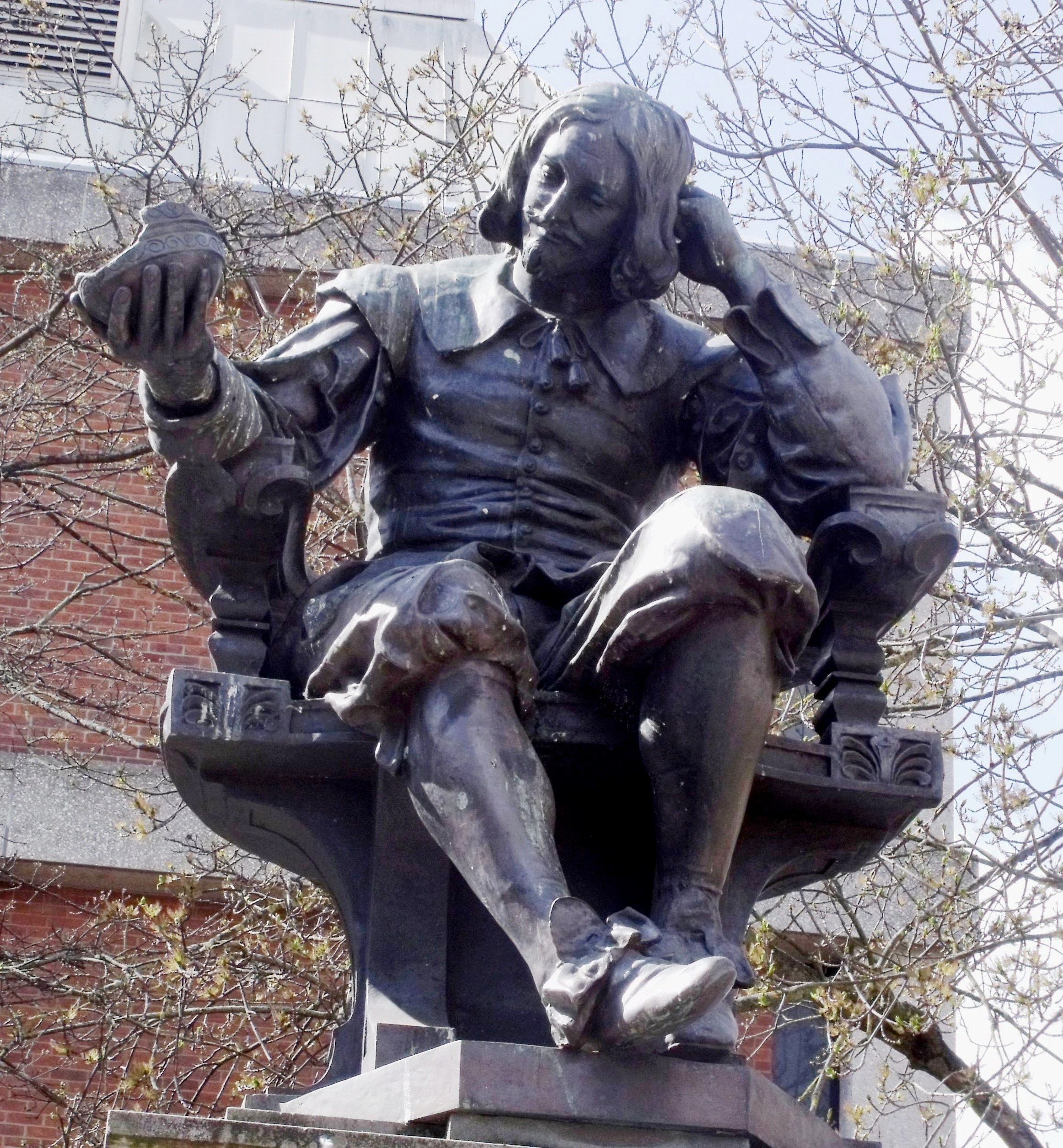 Statue of Sir Thomas Browne in Norwich city centre